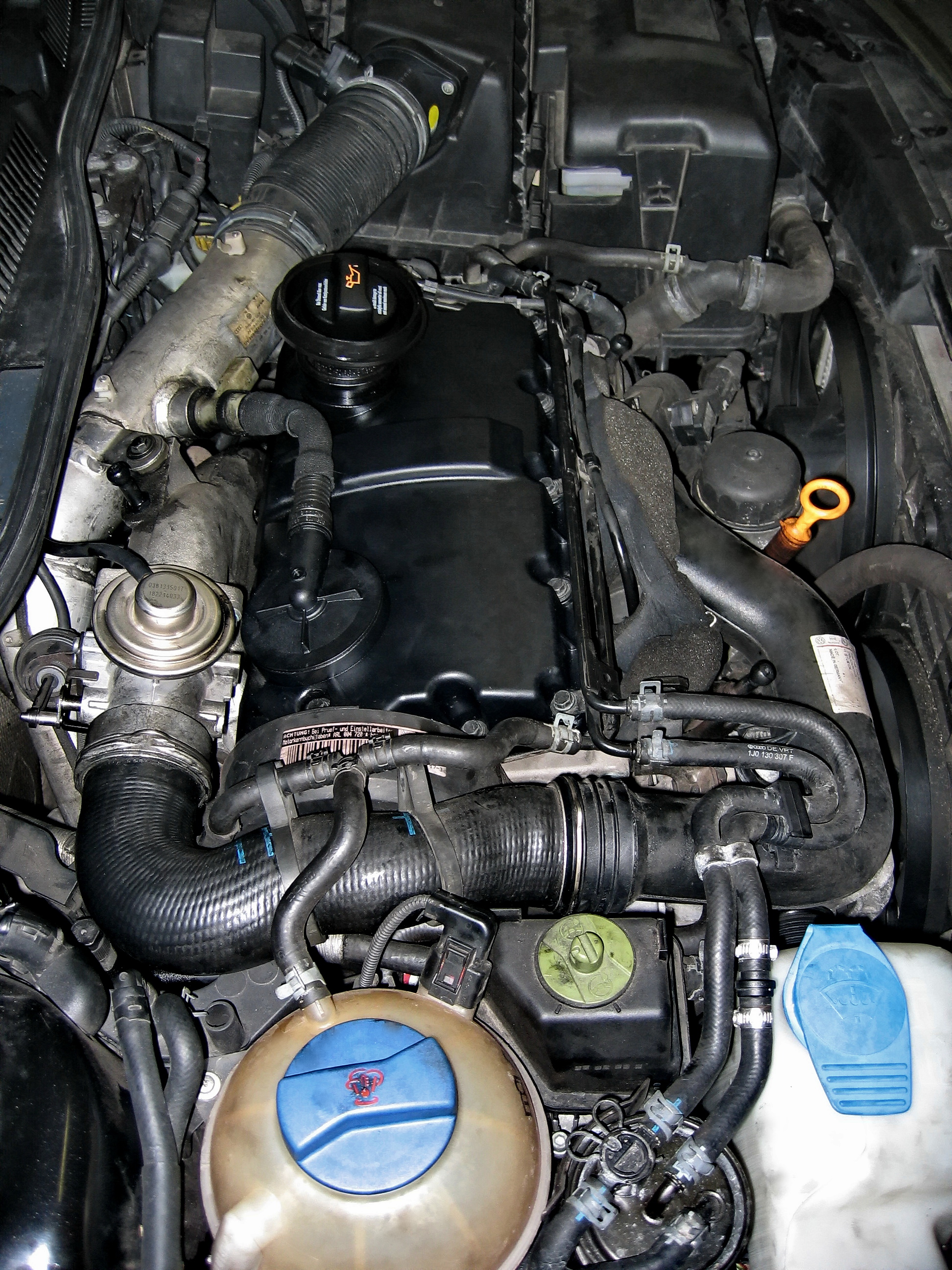 Volkswagen Group 1.9 litre PD 'Pumpe Düse' (Unit Injector) Turbocharged Direct Injection 4-cylinder diesel engine, this example shown has an ID code of ARL, fitted in a Volkswagen Golf Mk4. This engine, and variants with different power ratings, were available in all marques of the Volkswagen Group.